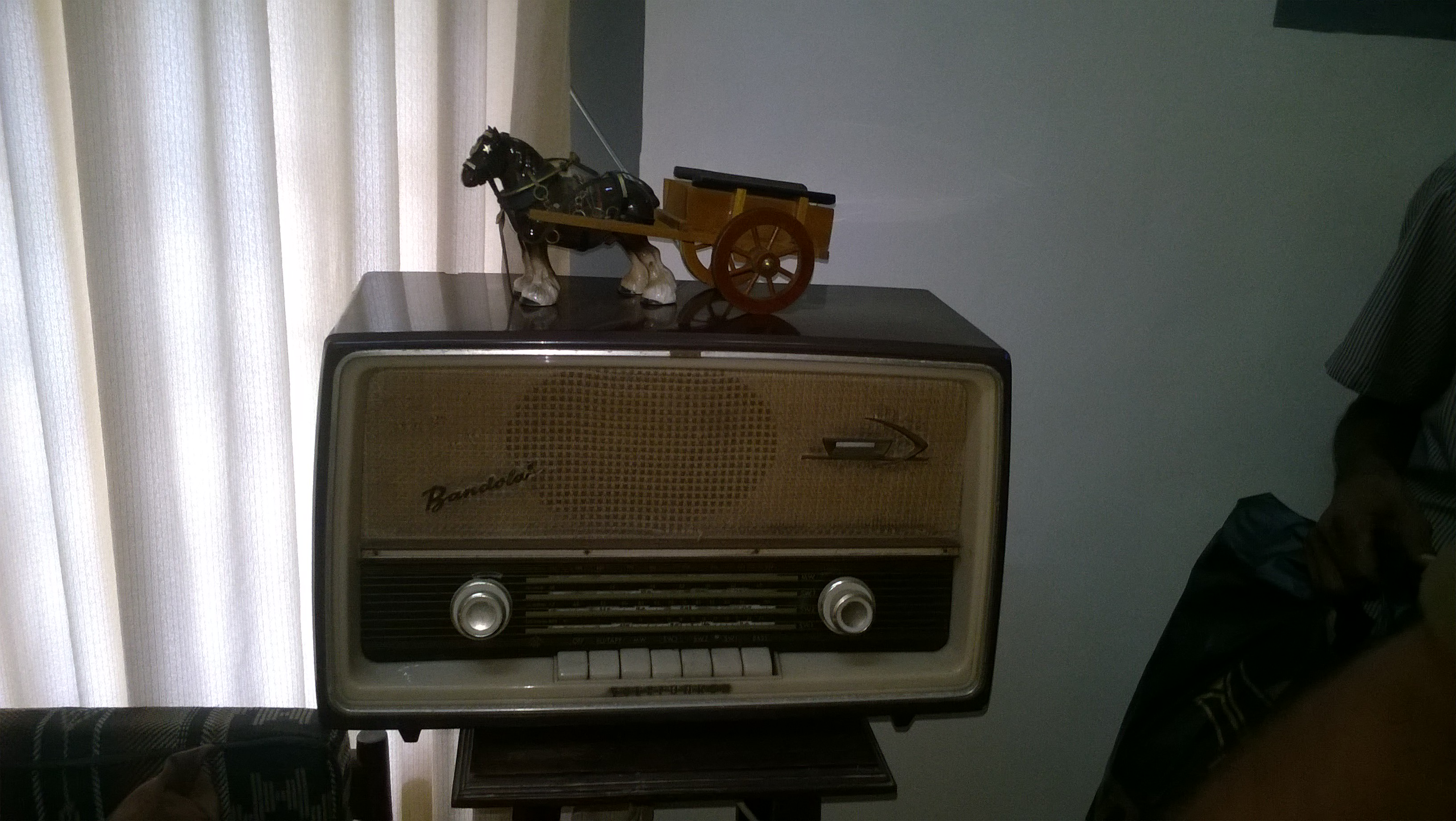 An old radio